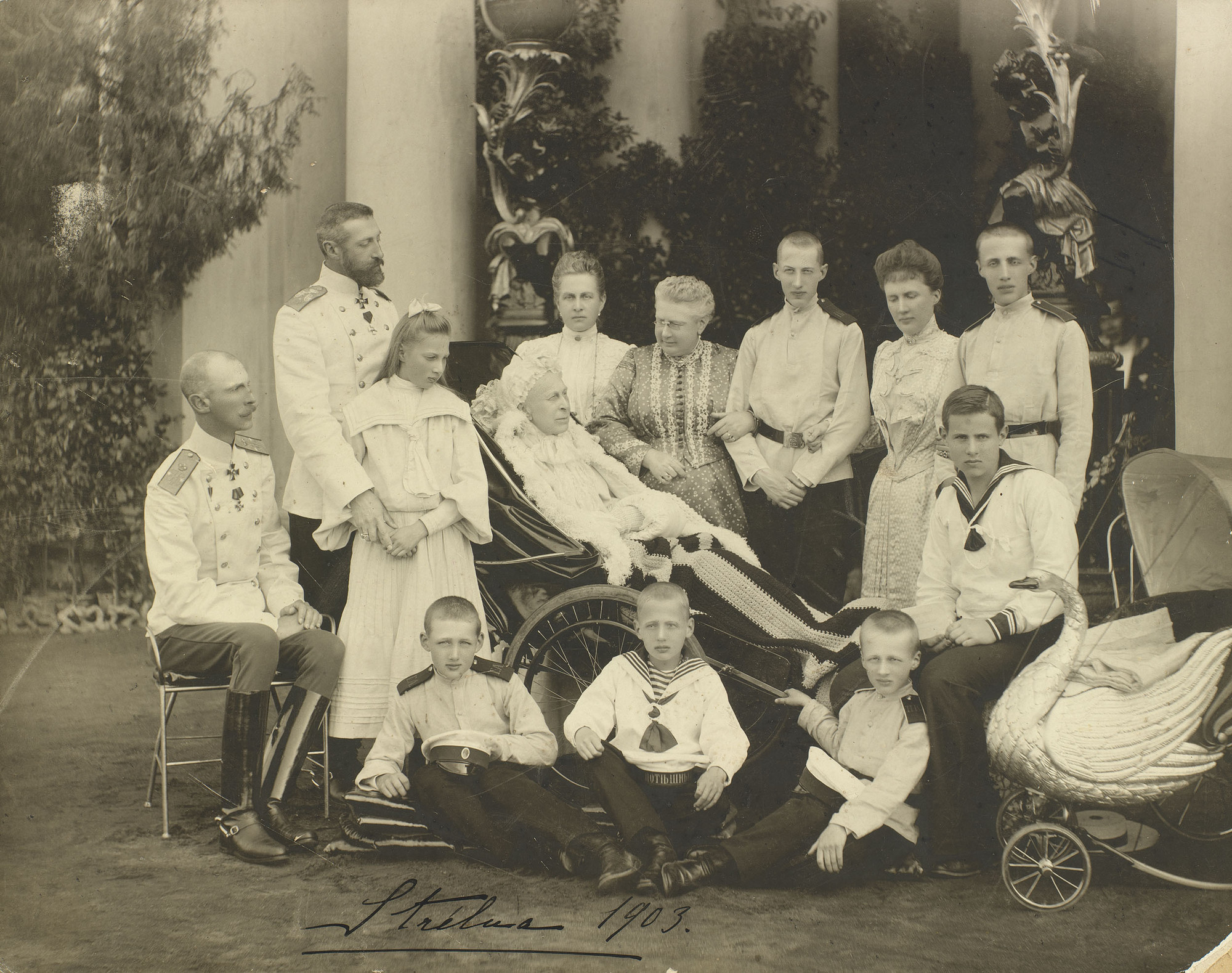 This photograph shows Grand Duchess Alexandra Iosifovna with four of her six children and a number of her grandchildren. It was taken at the Palace of Strelna, the coastal residence of the Constantinovich branch of the Imperial family. Photograph of Grand Duchess Alexandra Iosifovna (1830-1911) with her family. She is sitting in a bath chair at the centre of the group, facing right and with a knitted blanket covering her legs. Standing beside her to the right linking arms are Queen Olga of the Hellenes (1851-1926), Grand Duchess Vera Constantinovna (1854-1912), Prince Gabriel Constantinovich (1887-1955), Grand Duchess Elisabeth Mavrikievna (1865-1927) and Prince John Constantinovich (1886-1918). Prince Christopher of Greece and Denmark (1888-1940) is sitting to the far right with a pram in the shape of a swan beside him. Grand Duke Constantine Constantinovich (1858-1915) is standing to the left of the bath chair with his arm around Princess Tatiana Constantinovna (1890-1979). Grand Duke Dimitri Constantinovich (1860-1919) is sitting beside him to the far left. Sitting on the floor at the front of the group are Prince Constantine Constantinovich (1891-1918), Prince Igor Constantinovich (1894-1918) and Prince Oleg Constantinovich (1892-1914).